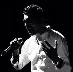 Collage of some of the stage performance by Shironamhin